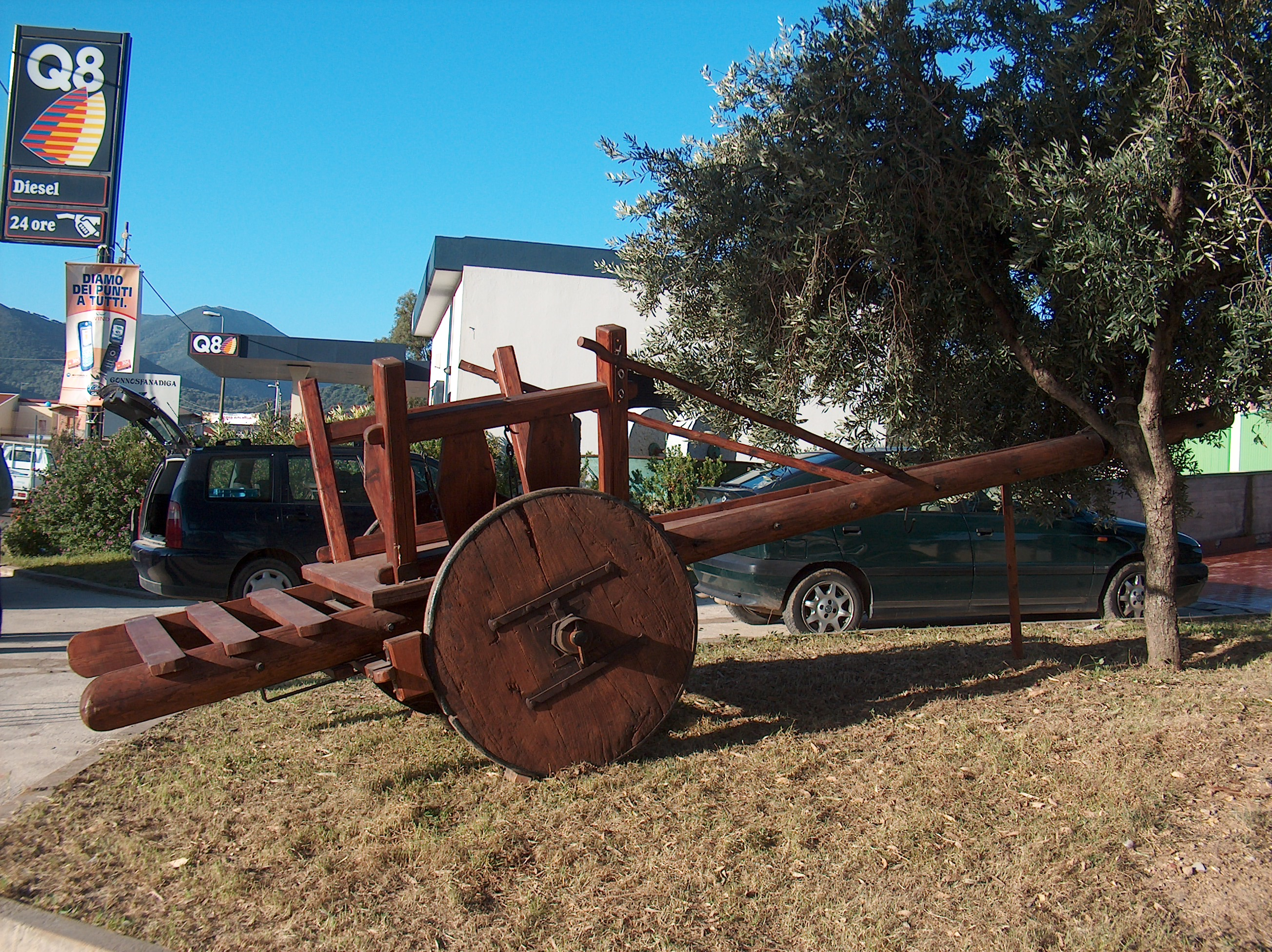 Traditional Sardinian agricultural cart. It was hauled by two oxen